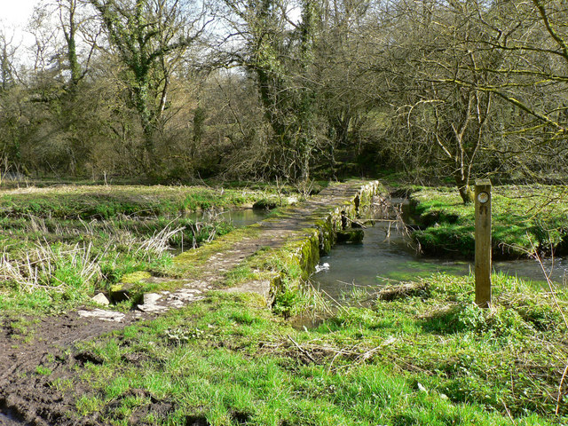 Bridge and footpath over the Afon Alun